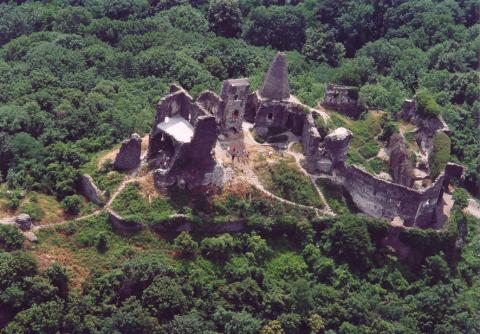 Castle of Somló in Hungary, Veszprém County, near Doba